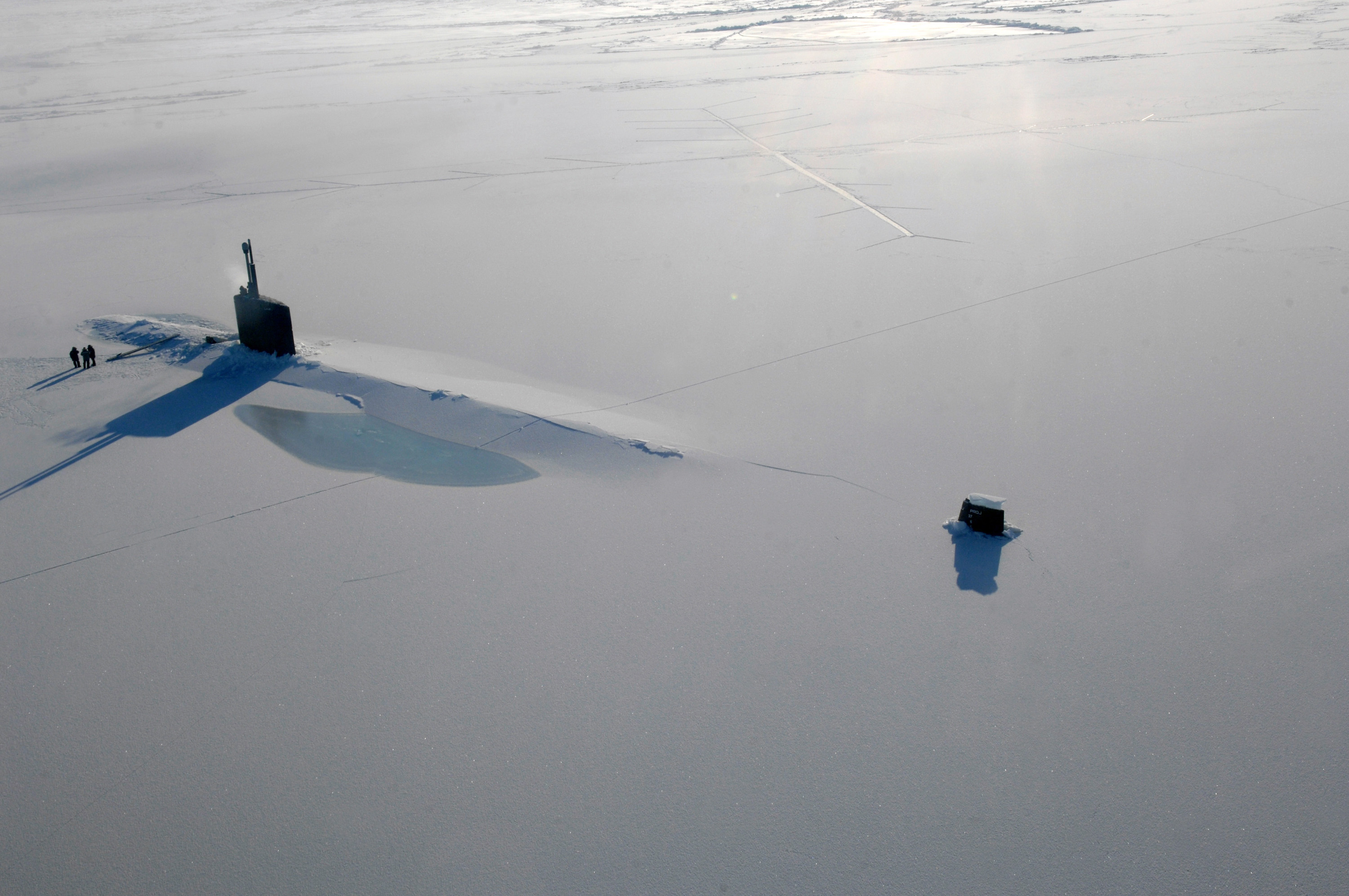 The US Navy attack submarine USS Annapolis (SSN 760) rests in the Arctic Ocean after surfacing through three feet of ice during Ice Exercise 2009 on March 21, 2009. The two-week training exercise, which is used to test submarine operability and war-fighting capability in Arctic conditions, also involved the USS Helena (SSN 725), the University of Washington and personnel from the Navy Arctic Submarine Laboratory.